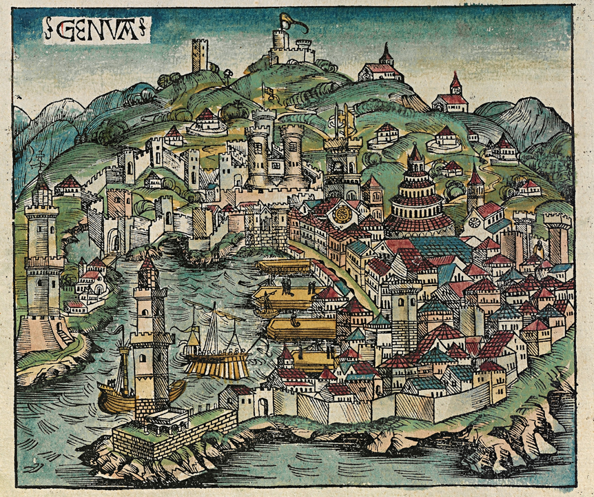 Genova. Woodcut from the Nuremberg Chronicle